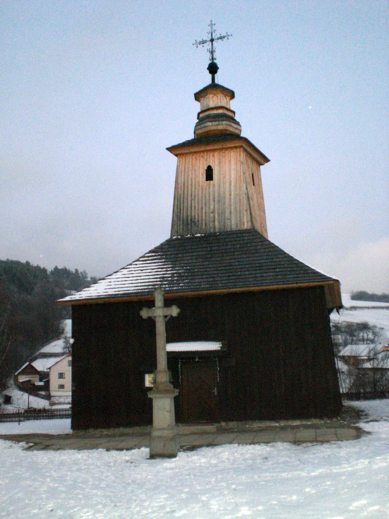 wooden Greek Catholic Church at Krivé, Bardejov